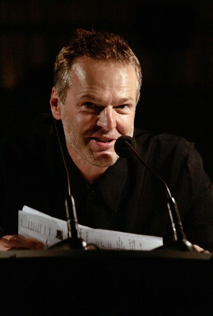 Austrian writer Wolf Haas reading at the literary festival o-töne (MuseumsQuartier, Vienna, Austria